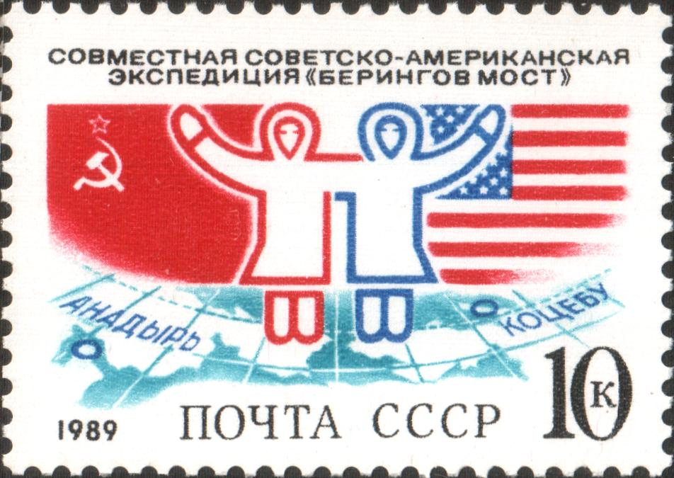 USSR stamp